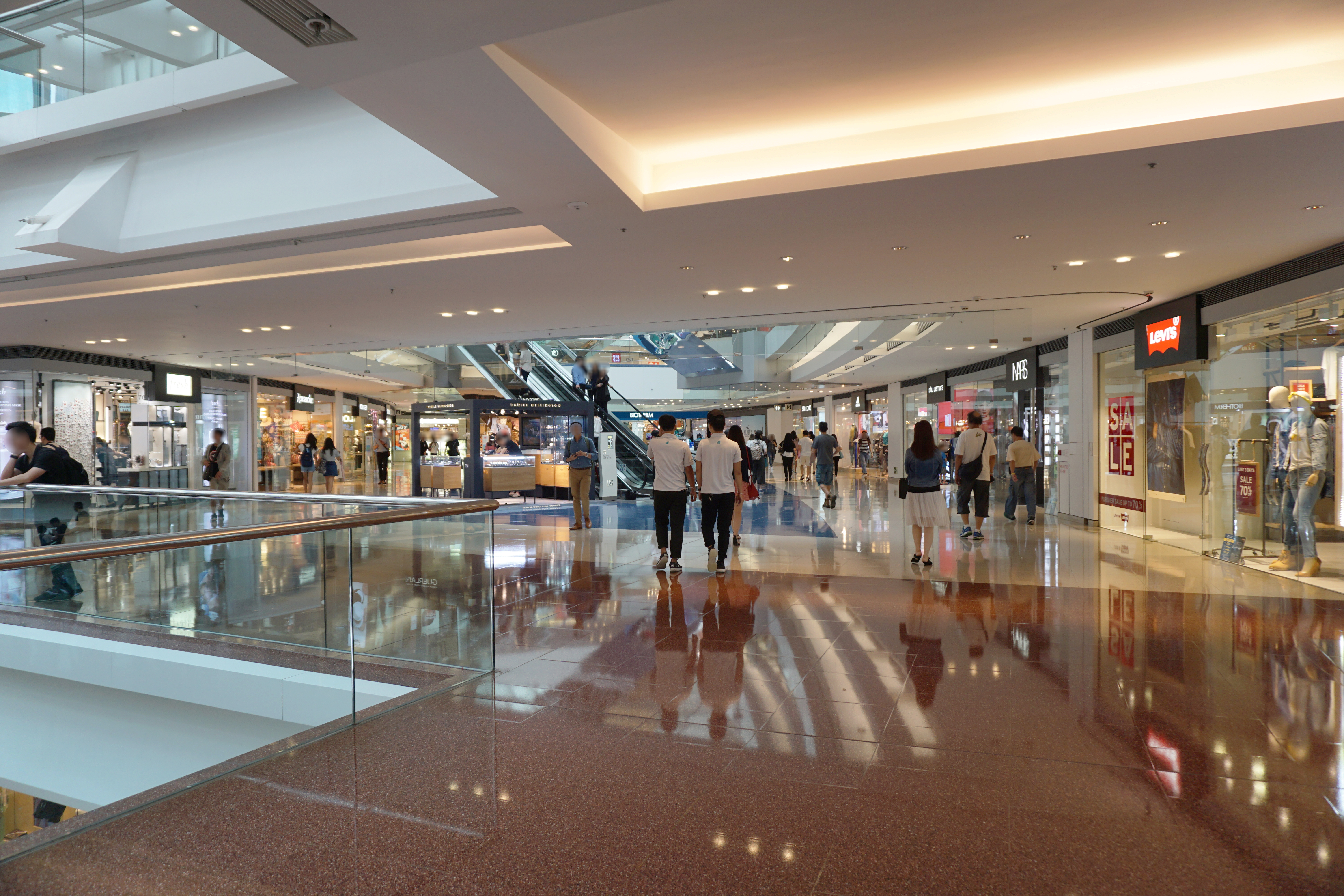 Festival Walk in Kowloon Tong, Hong Kong.